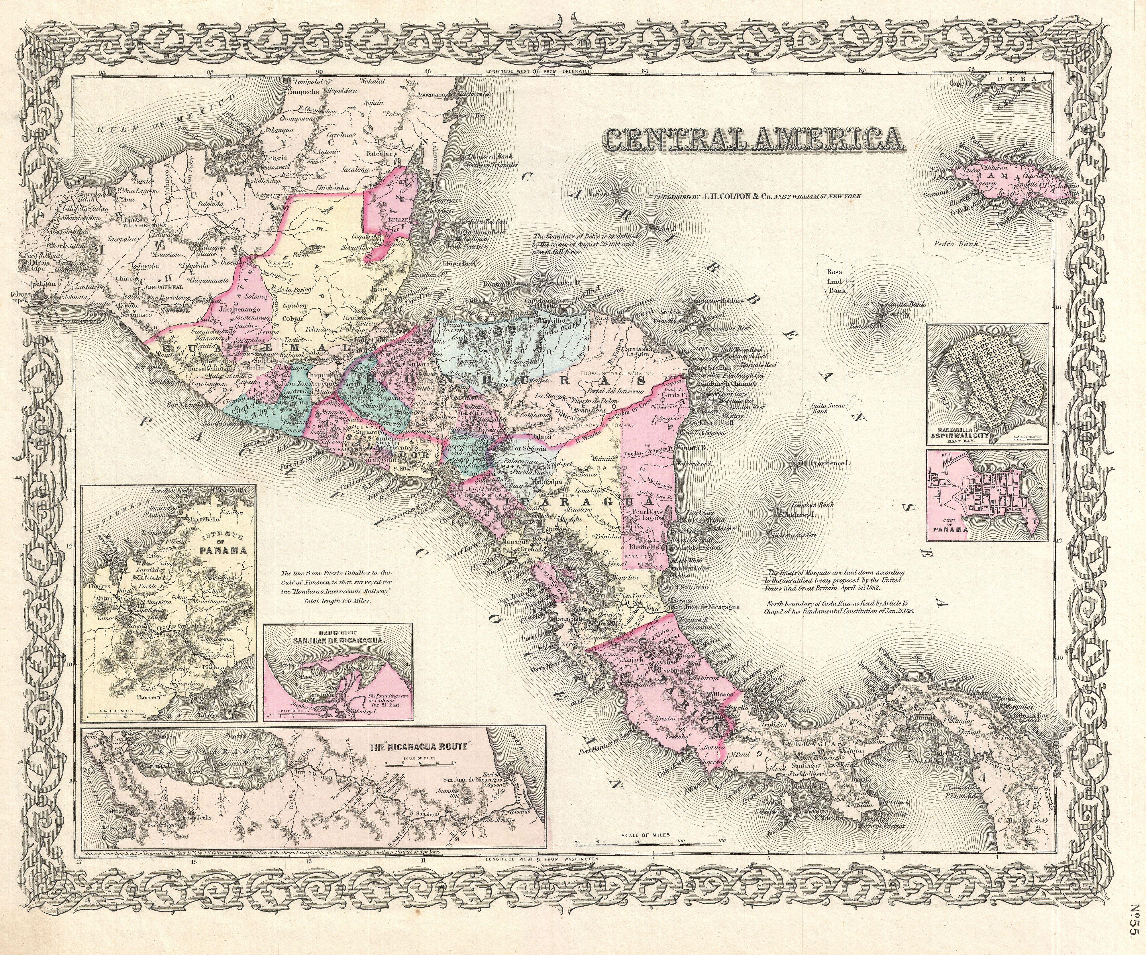 A beautiful 1855 first edition example of Colton's map of the Central America and Jamaica. Covers from the Yucatan southeast as far as Panama and north as far as Jamaica. Like most of Colton's North America maps, this map is largely derived from an earlier wall map of North America produced by Colton and D. Griffing Johnson. Features several insets, including the Isthmus of Panama, the Harbor of San Juan de Nicaragua, the Nicaragua Route, Aspinwall City, and the City of Panama. Throughout the map, Colton identifies various cities, towns, forts, rivers, rapids, fords, and an assortment of additional offshore and topographical details. Map is hand colored in pink, green, yellow and blue pastels to define national and regional boundaries. Surrounded by Colton's typical spiral motif border. Dated and copyrighted to J. H. Colton, 1855. Published from Colton's 172 William Street Office in New York City. Issued as page no. 55 in volume 1 of the first edition of George Washington Colton's 1855 Atlas of the World .